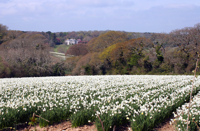 A field of white narcissus near Playing Place, Killiow house can be seen in the background.